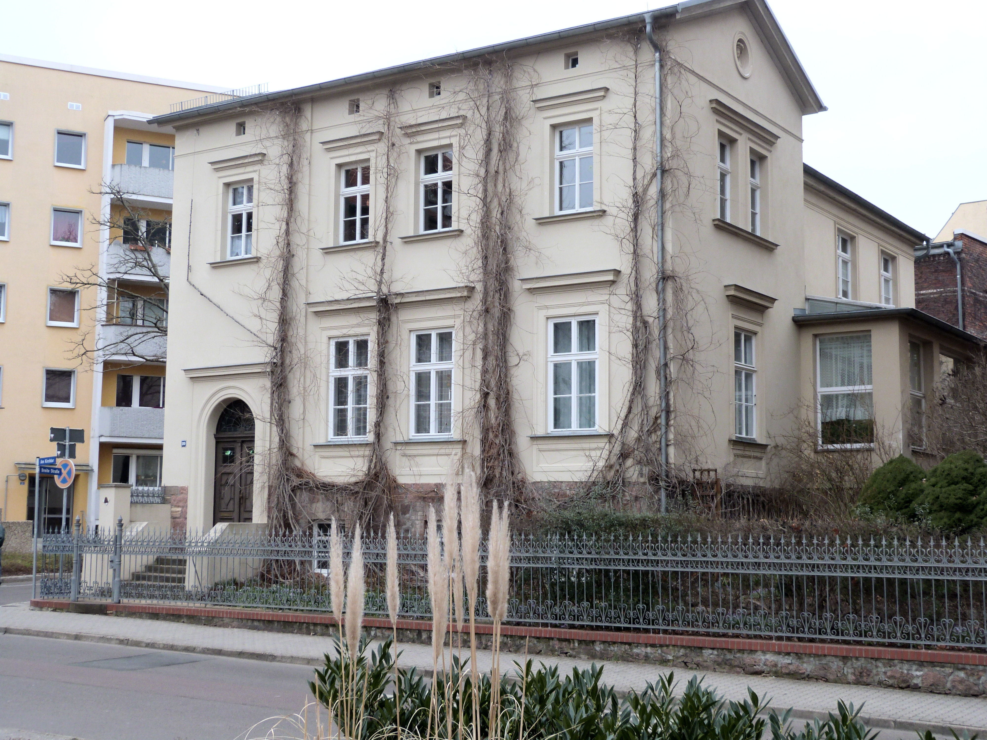 Villa Roß in the Street Am Kirchtor No. 29, Halle (Saale)